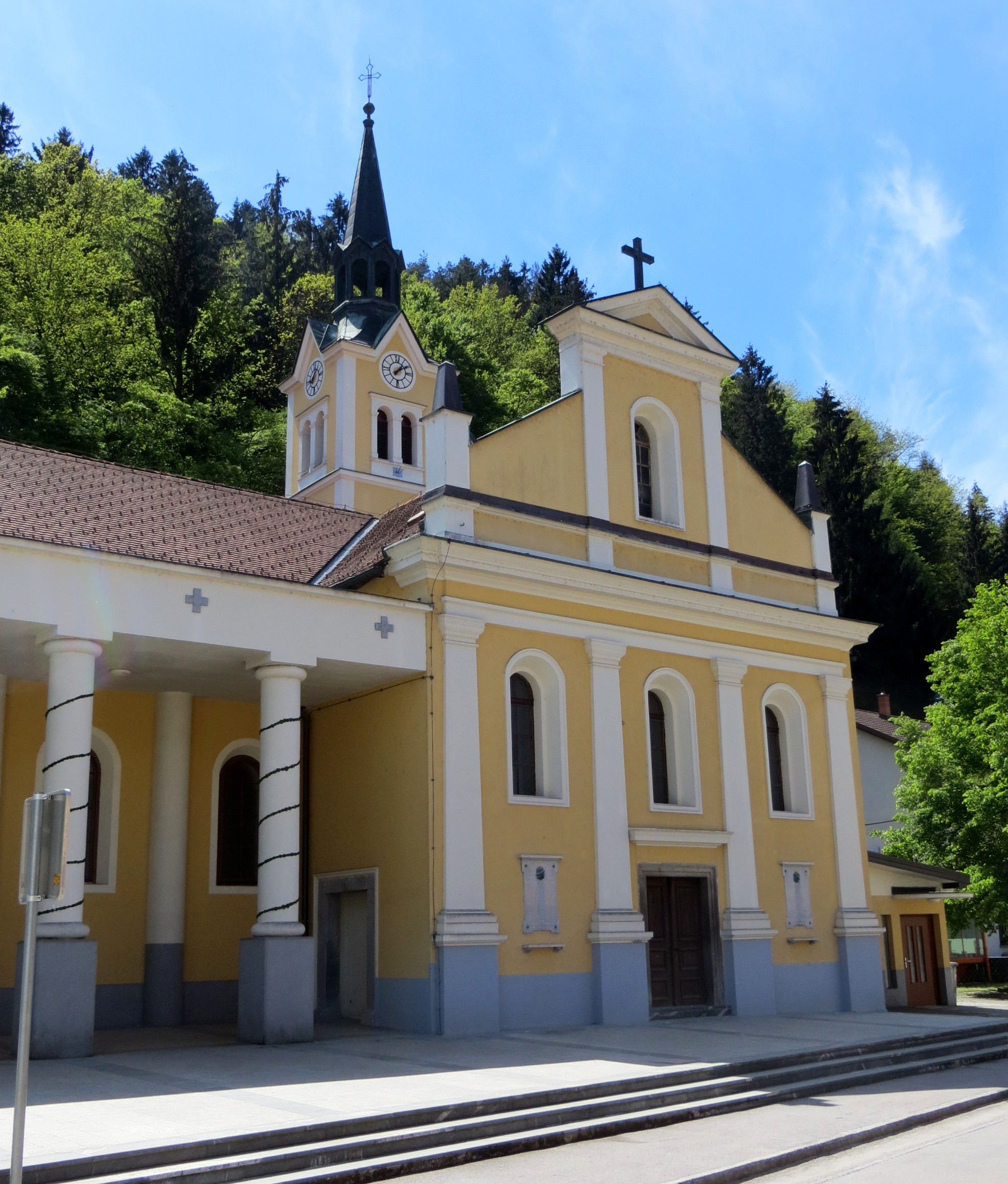 Saint Nicholas's Church in Litija, Slovenia